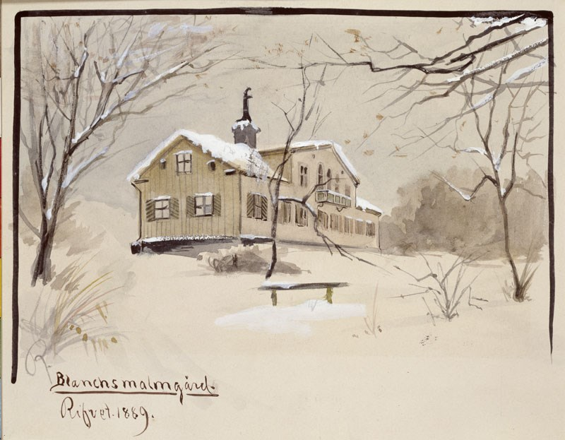 Blanches malmgård (Blanches ore farm) at Karlavägen in Östermalm, Stockholm. Watercolor on paper by the artist Henry Reuterdahl (1870-1925). Dimensions in mm: 240x296. Stockholm City Museum, Stockholmskällan. Item ID Inventory Number SSM: 502165.